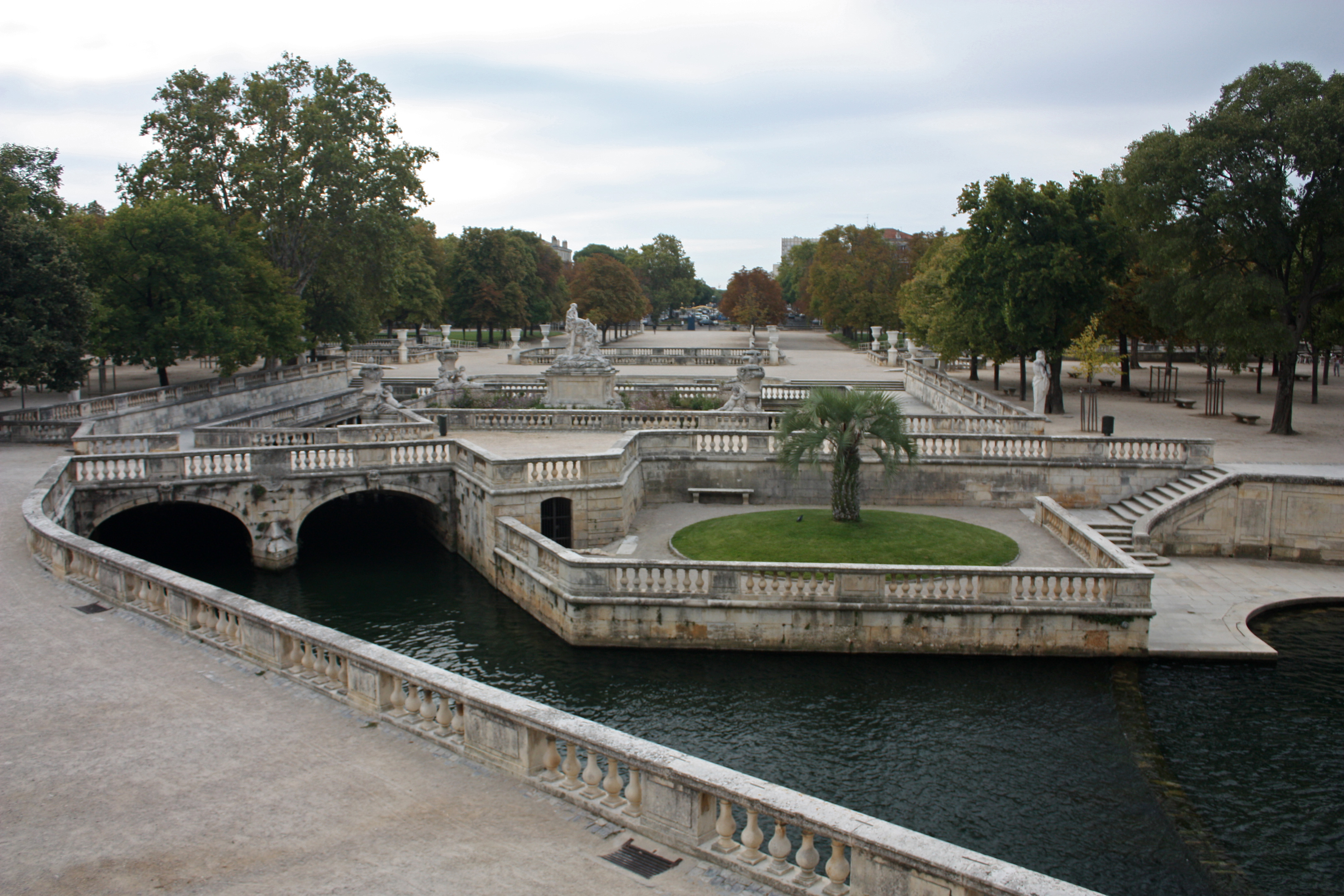 The perspective of the central lane, with, in its extension, the Jean Jaures Boulevard. (View from the terrace of the staircase overlooking the basin of The Fountain).